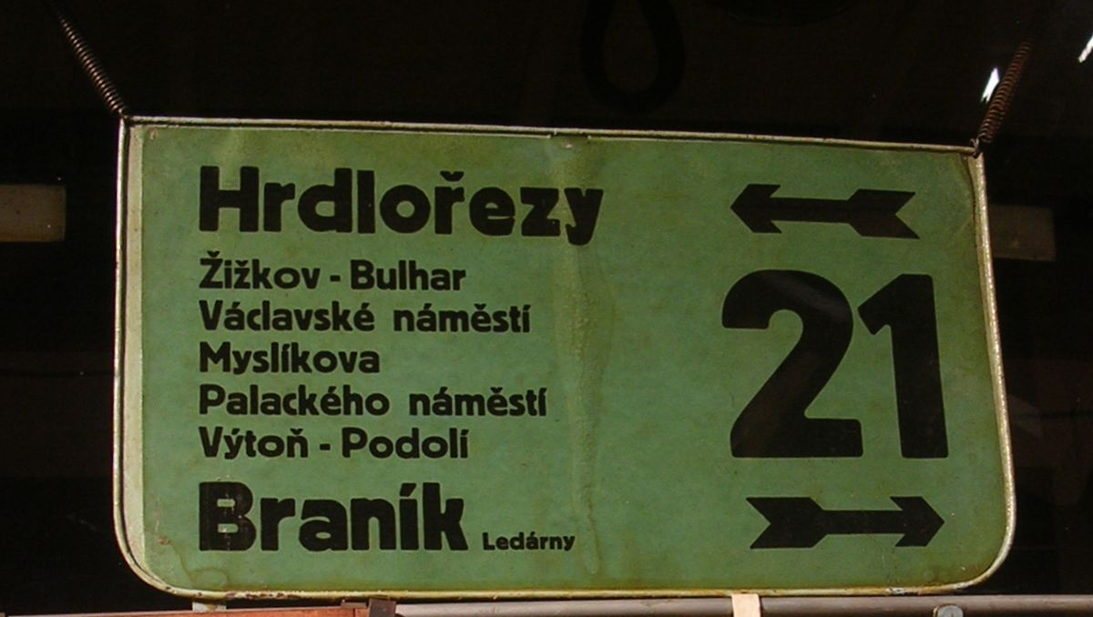 Střešovice, Prague, the Czech Republic. A tram line board.